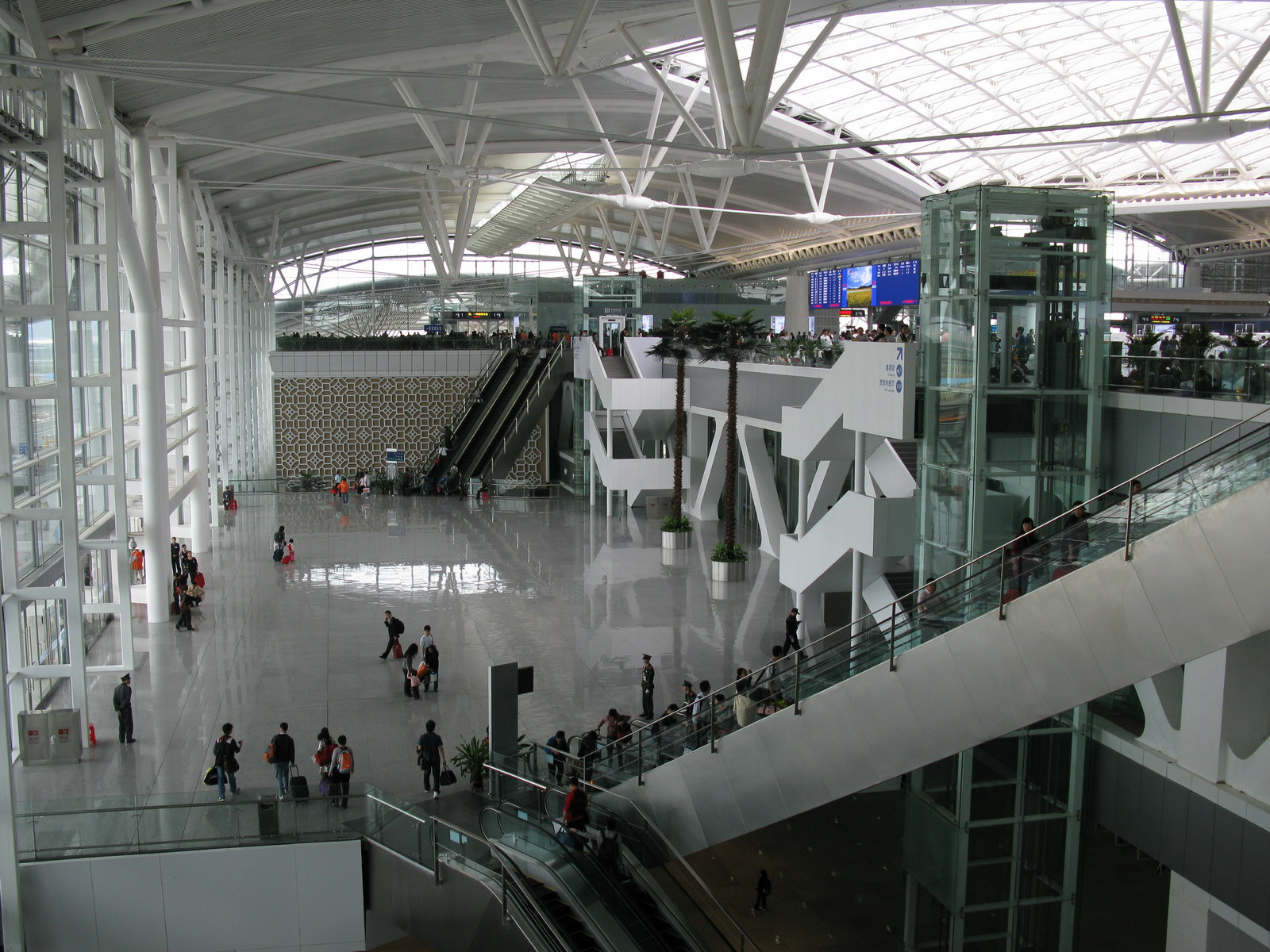 2/F East Concourse of Guangzhou South Railway Station